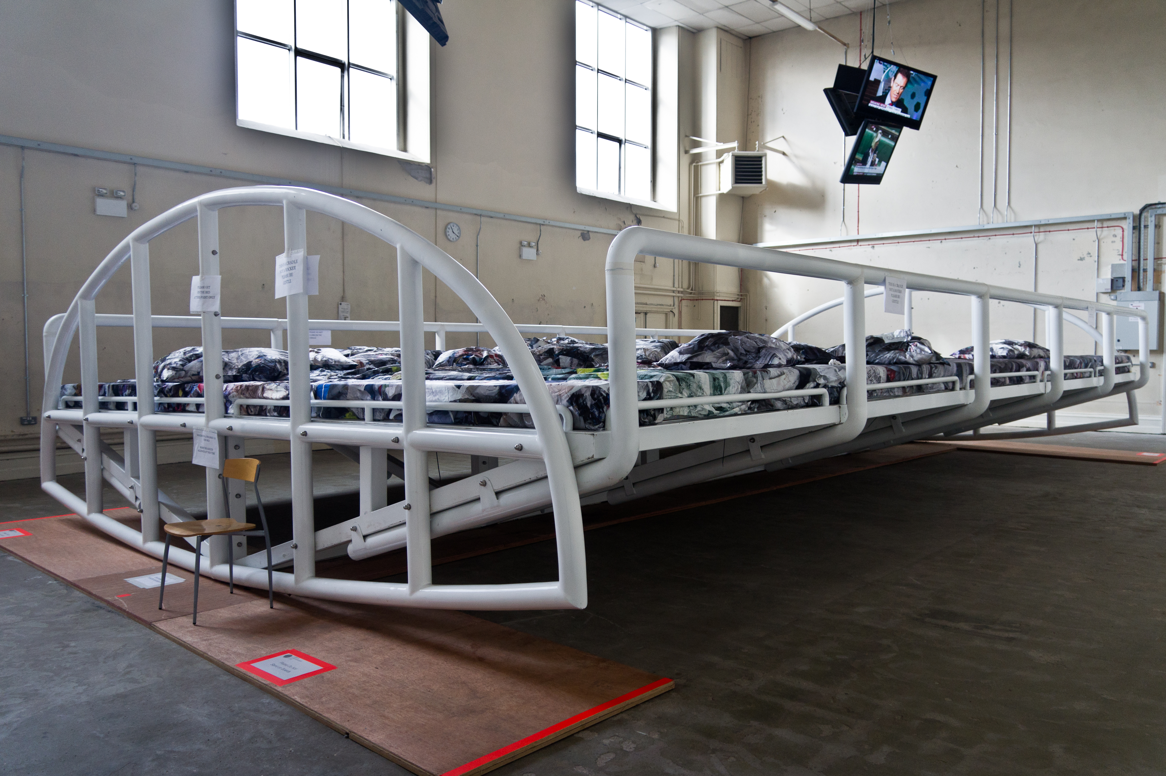 Dublin Contemporary 2011